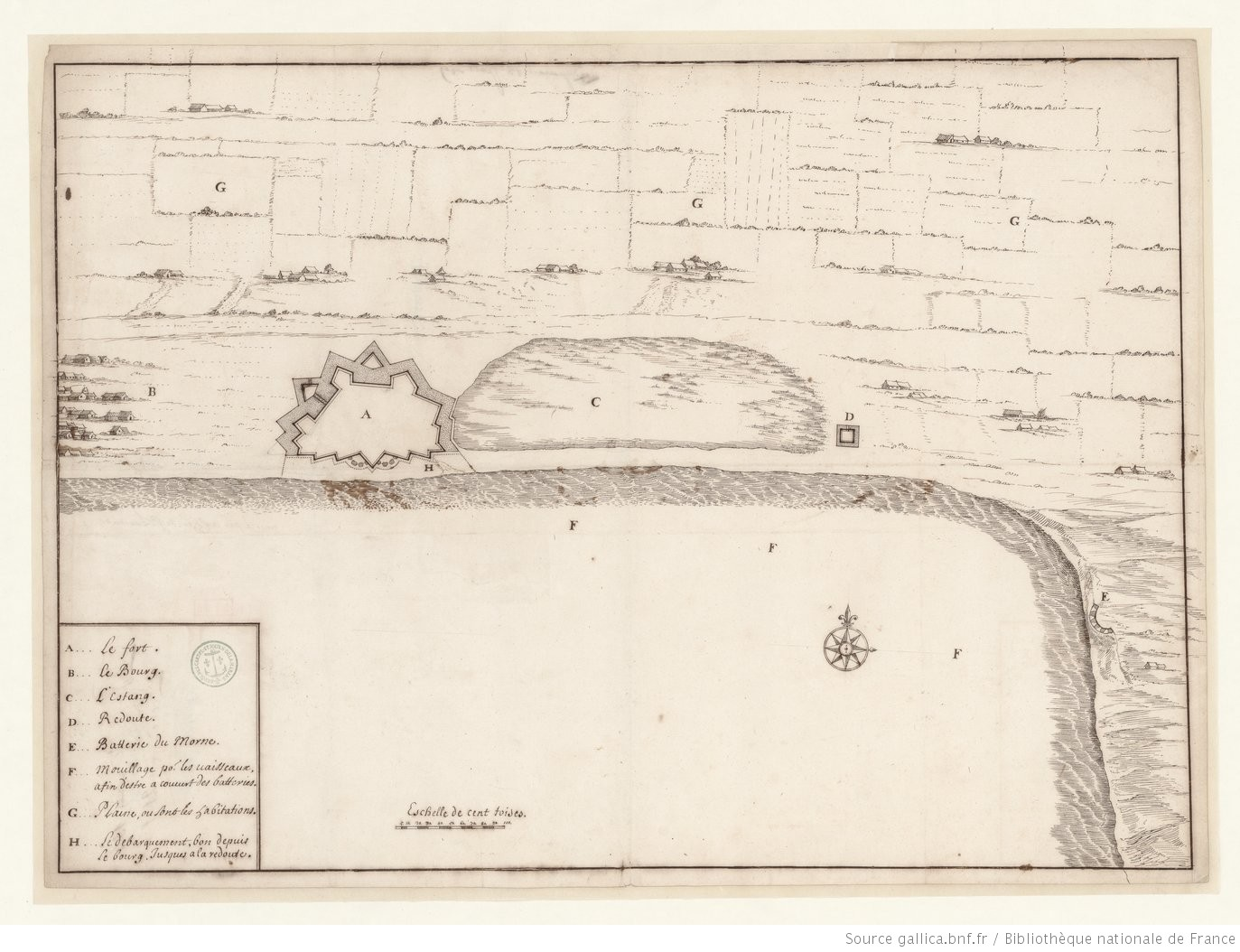 Plan of the fort near Basseterre, Saint Christophe